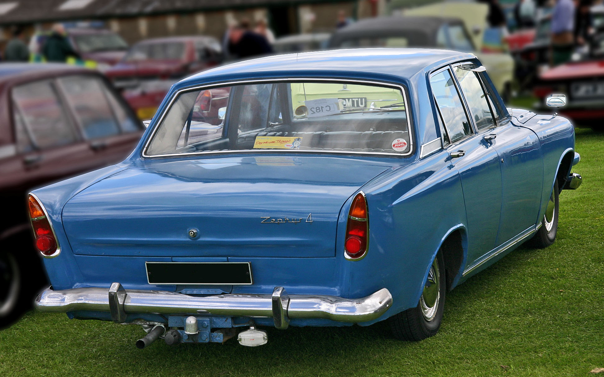 Ford Zephyr 4 (211E) was introduced in 1962 to replace the Ford Consul MkII. Production stopped in 1966 after 106,000 had been produced and Ford Zephyr MkIV replaced it.